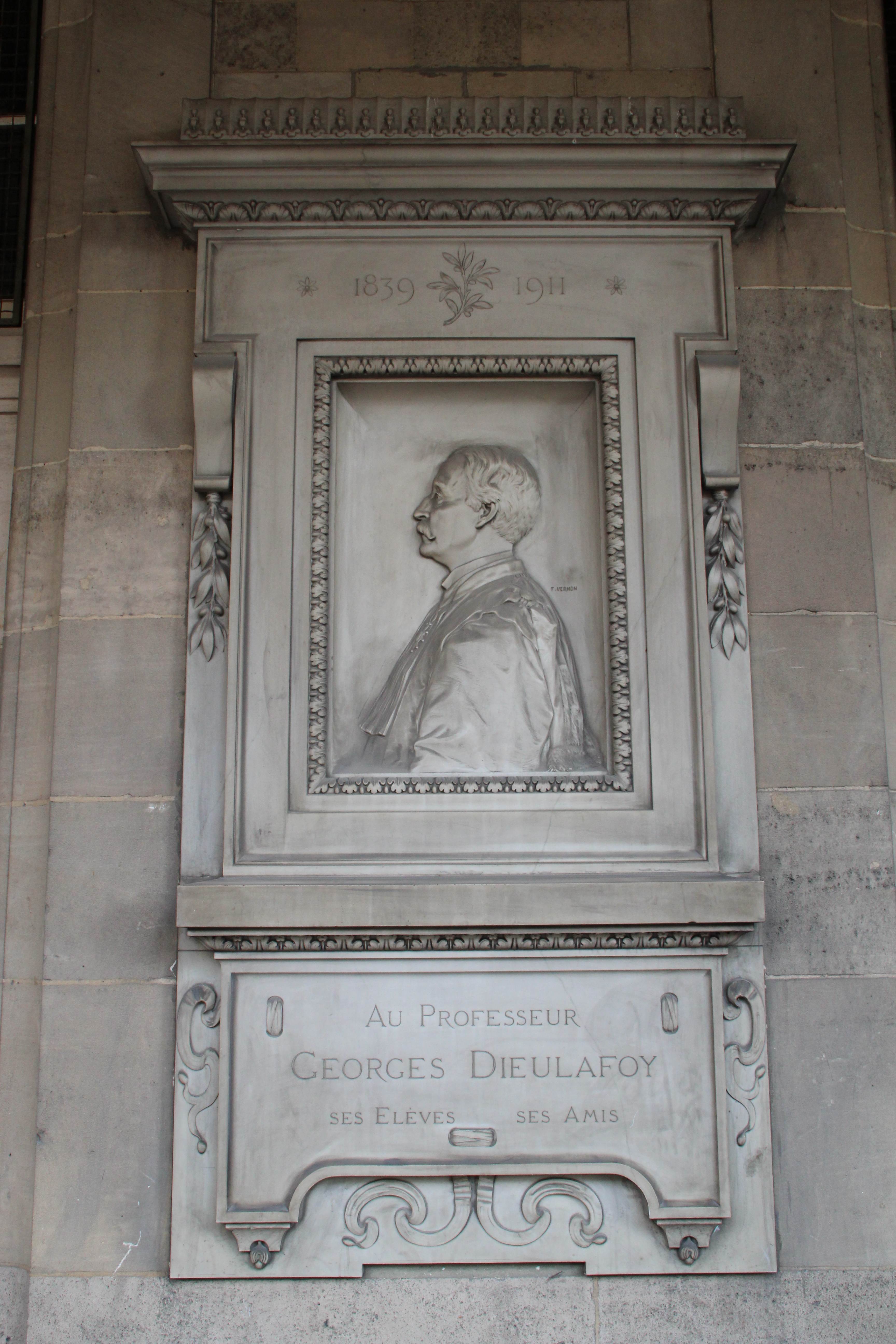 Hôtel-Dieu hospital in Paris, France. Commemorative plaque to Professor Paul Georges Dieulafoy: 1839 - 1911.